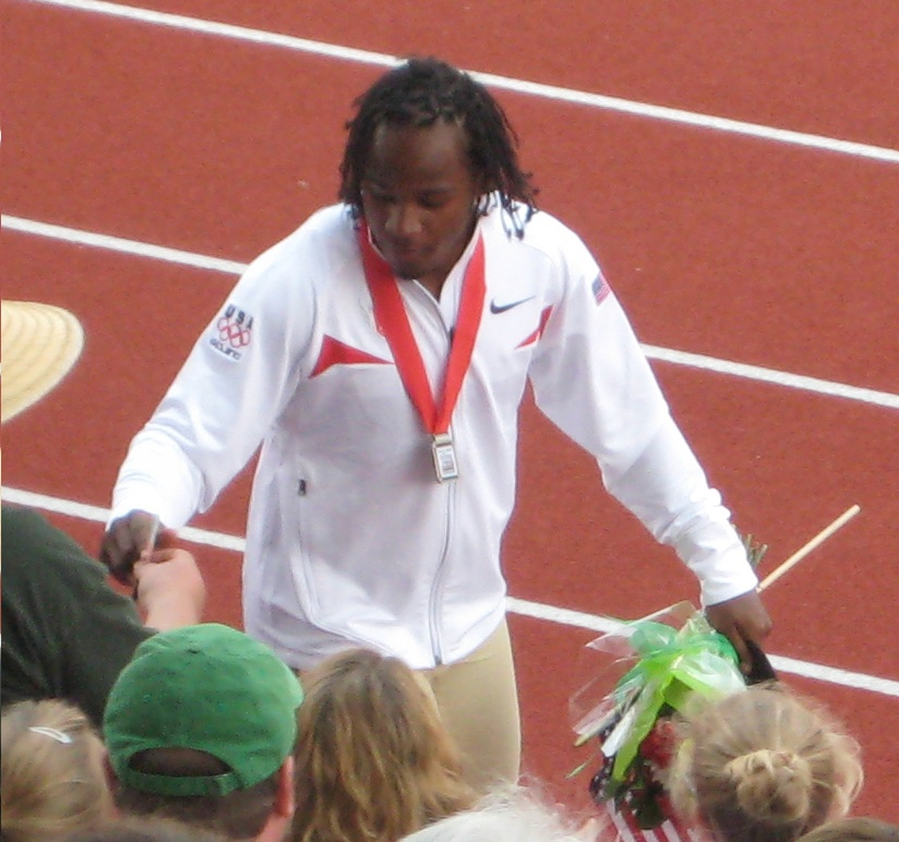 Walter Dix after winning a 100m silver medal at the Olympic Track and Field Trials at Hayward Field University of Oregon Eugene OR, 6-29-08